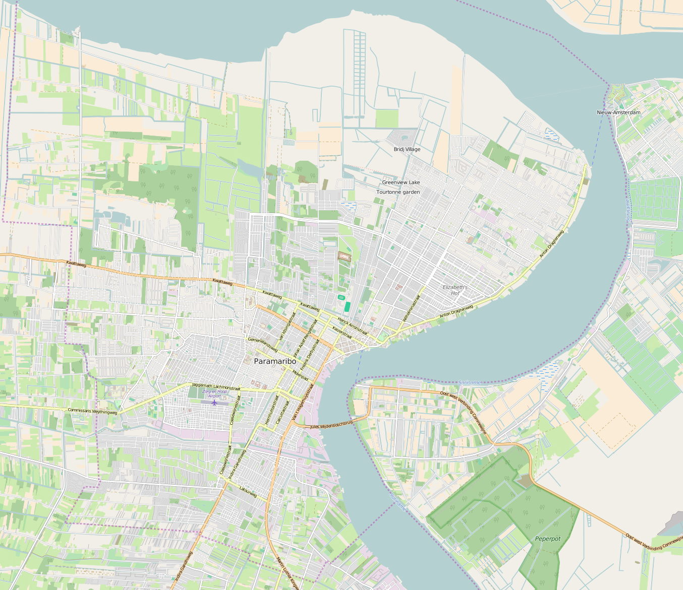 Map of Paramaribo District Geographic limits of the map: N: 5.9113° S: 5.7649° W: -55.2458° E: -55.0753°